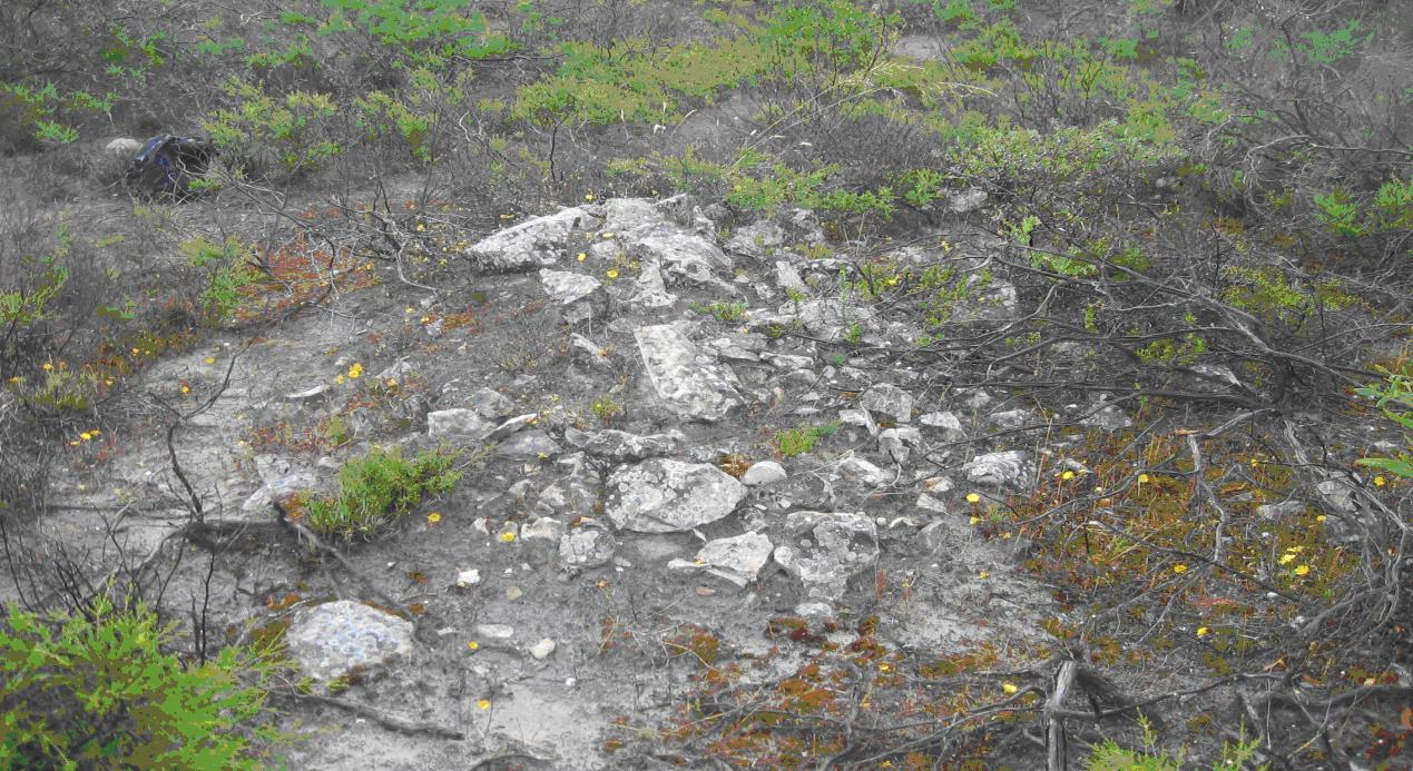 Gerritsen stone find, 28 October 2008